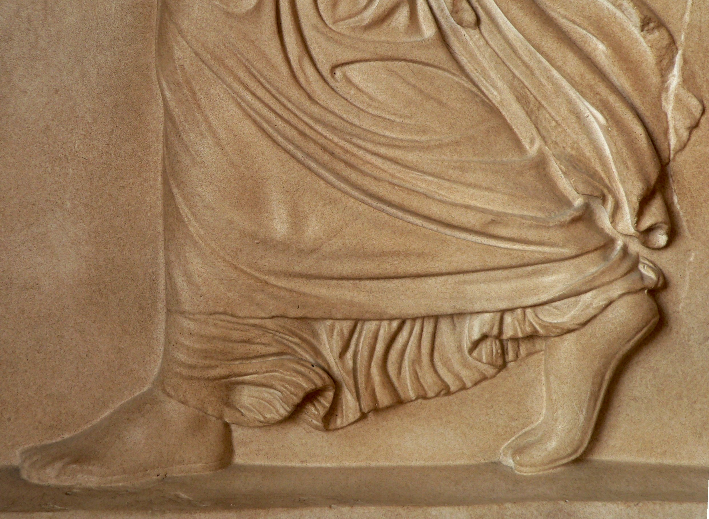 Gradiva (detail), copy of neo-Attic Roman bas-relief, probably after a Greek original from the 4th century B.C., Vatican Museum Chiaramonti, Rome; Cat. No. 1284; see Image:Gradiva-p1030638.jpg for further details.